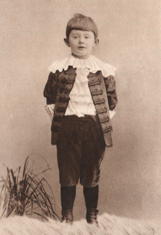 Childhood portrait (1896) of Ehrenfried Günther Freiherr von Hünefeld, german aviation pioneer